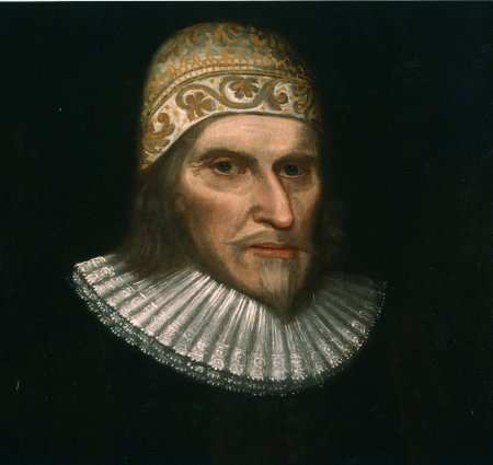 Detail of portrait of Humphrey Chetham